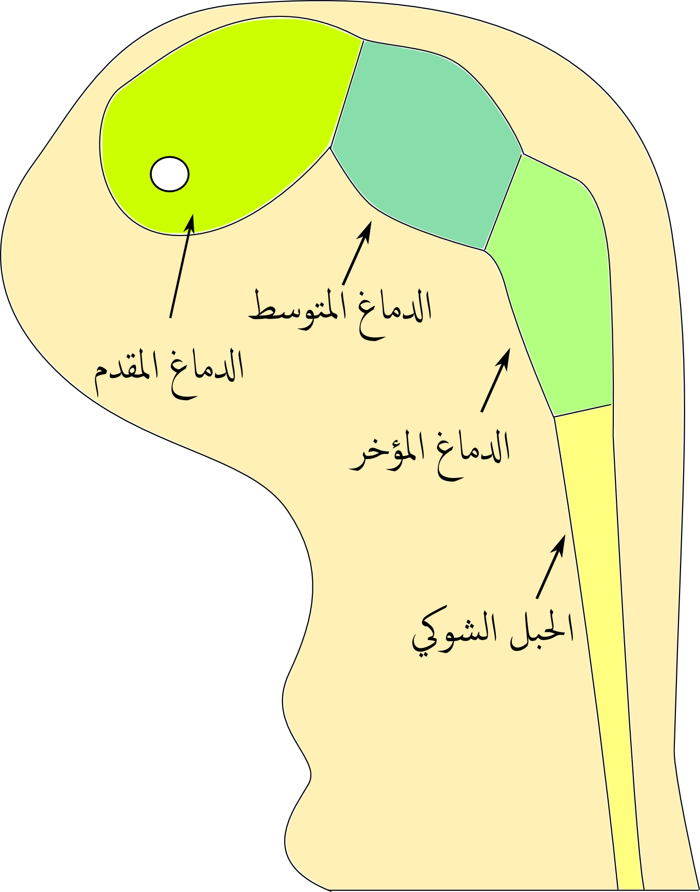 the development of the embryo's CNS in the 4th week